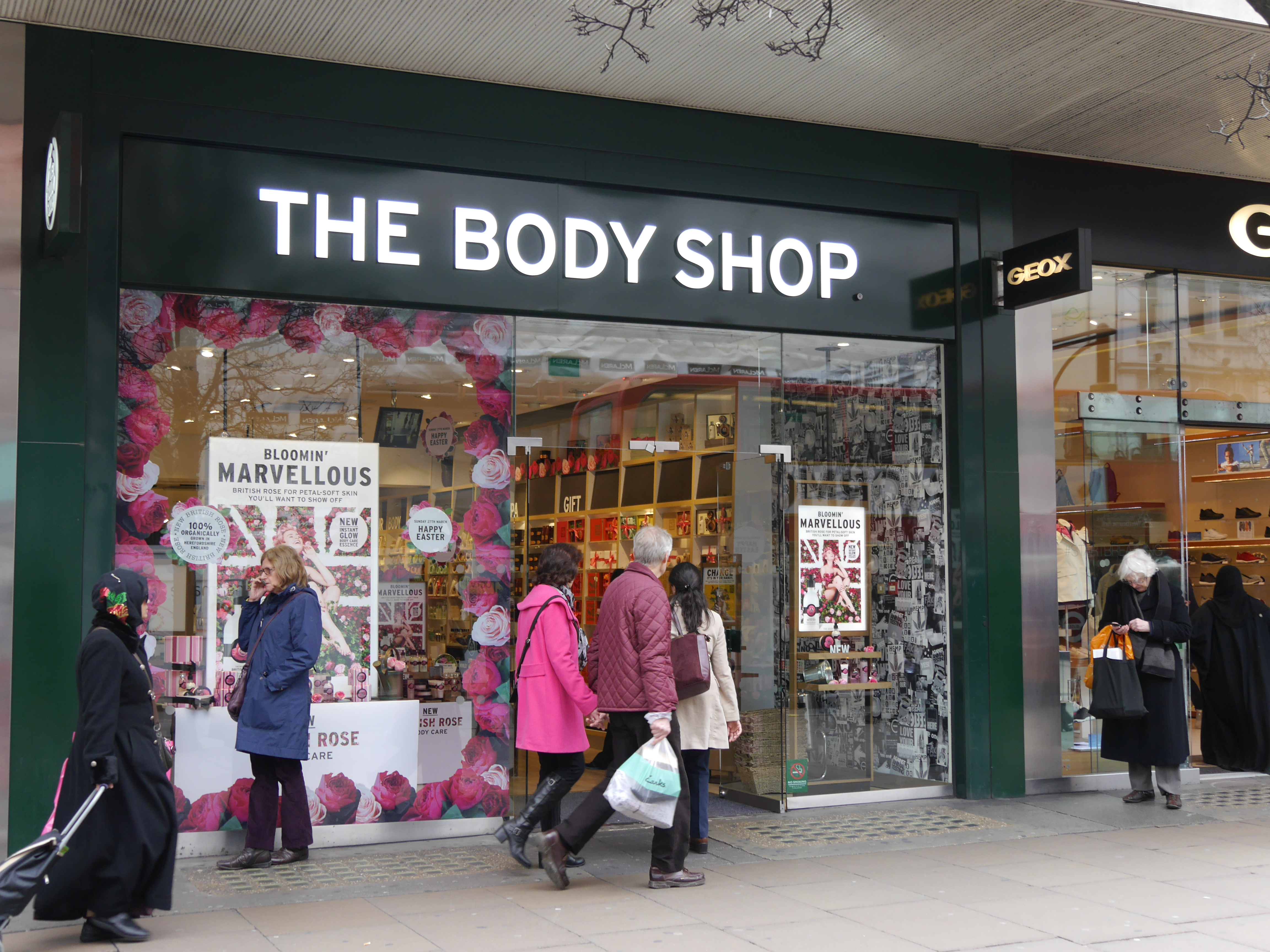 Oxford Street, London, March 2016